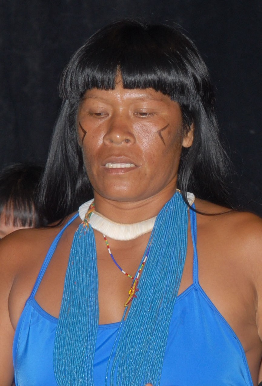 Kuikuro woman at Brazil's Indigenous Games